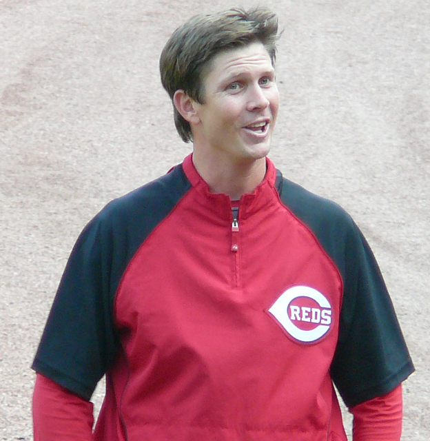 If used somewhere other than Wikipedia, Nelson, by name. 04:08, 20 September 2009 . . Chrisjnelson . . 624×640 (315 KB)